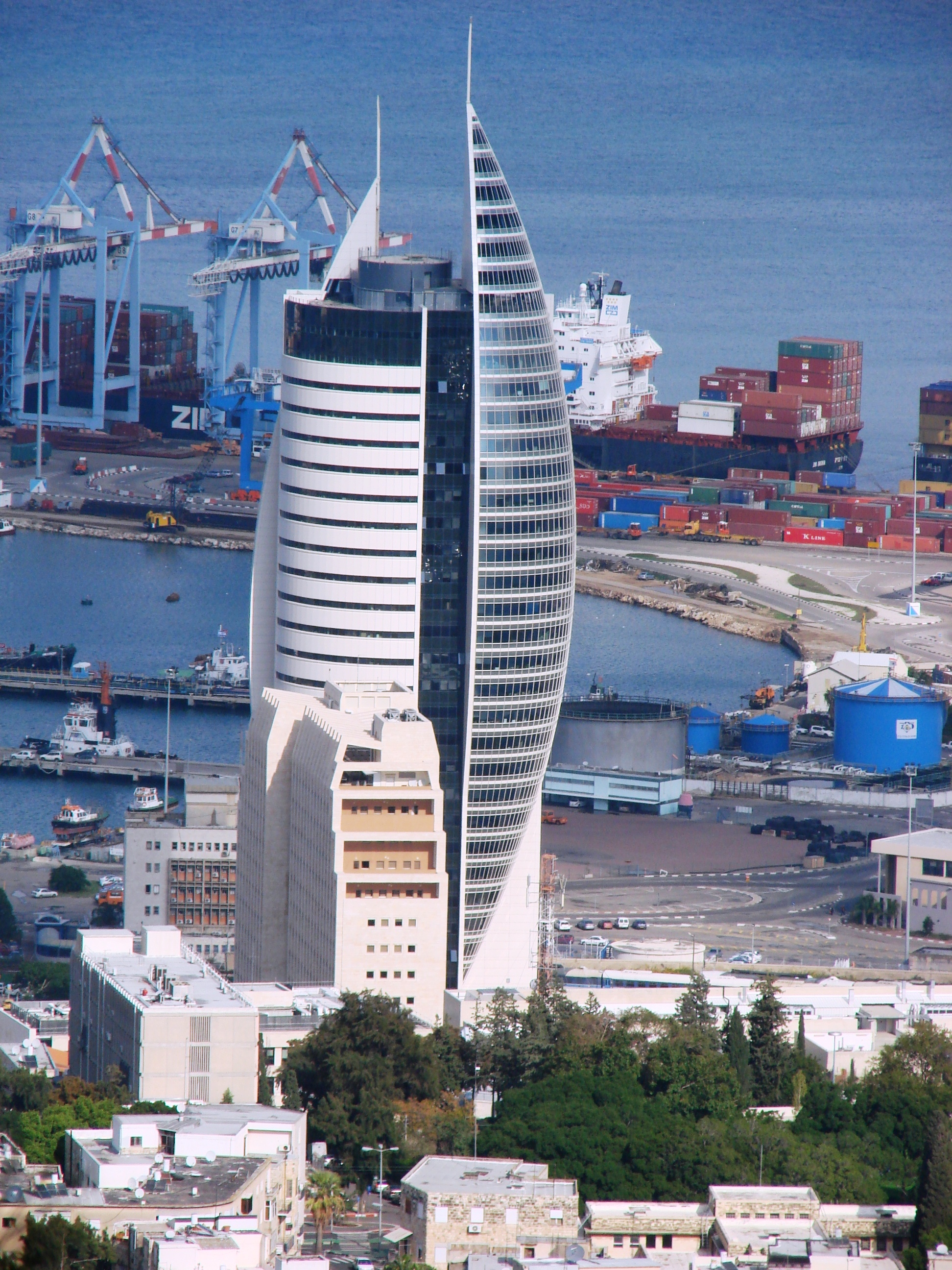 Administrative building in Haifa